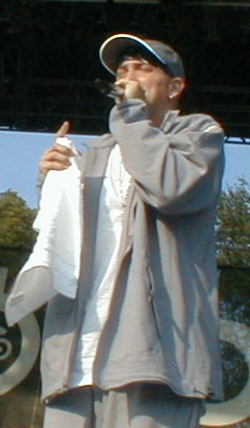 Rapper Eminem performs early in his career at Voodoo 2000